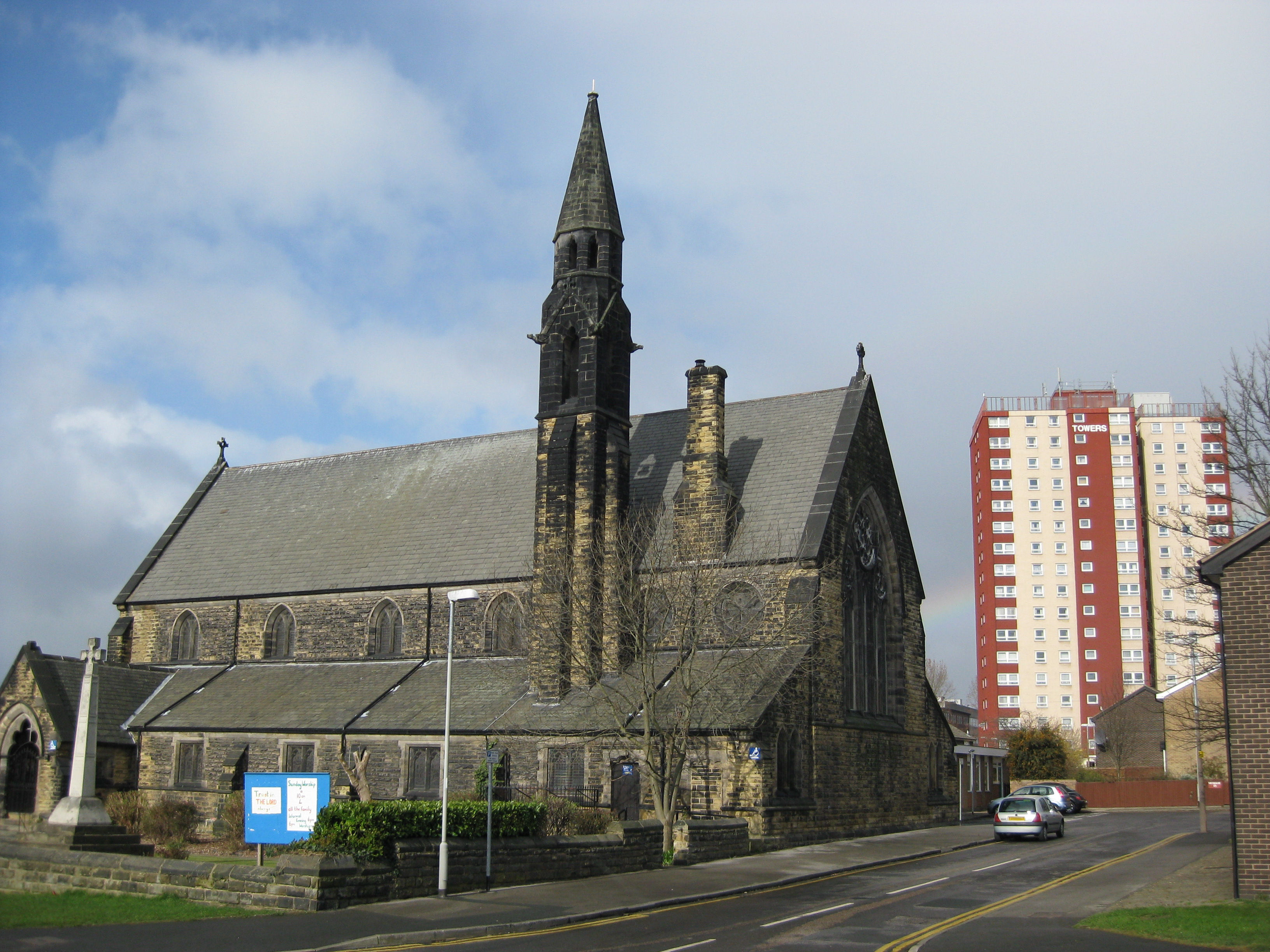 St Agnes' parish church, Stoney Rock Lane, Burmantofts, Leeds, seen from the east, with Shakespeare Towers on the right